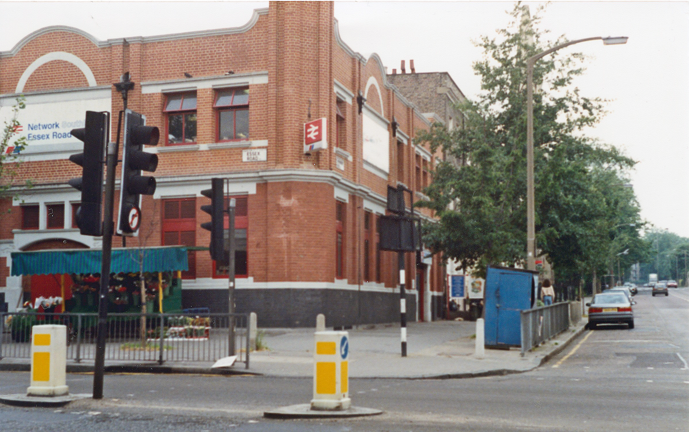 Canonbury: Essex Road station entrance, 1991. View northward, at cross-roads of A1200 New North Road (right-to-left) and A120 Essex Road (ahead), towards Finsbury Park and Welwyn Garden City/Hertford North: ex-Great Northern & City, later Metropolitan Railway, now NR Northern City Line, in 1991 it was a Network Southeast station. Formerly Canonbury & Essex Road until 11/7/48, it was closed from 5/10/75 until 16/8/76 (reconstructed) on the renovated through electric Northern City Line.